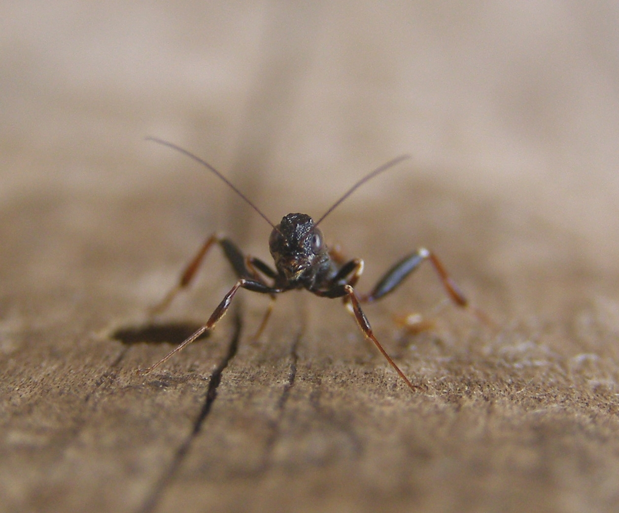 Stephanus serrator F, face. Aguiar ID